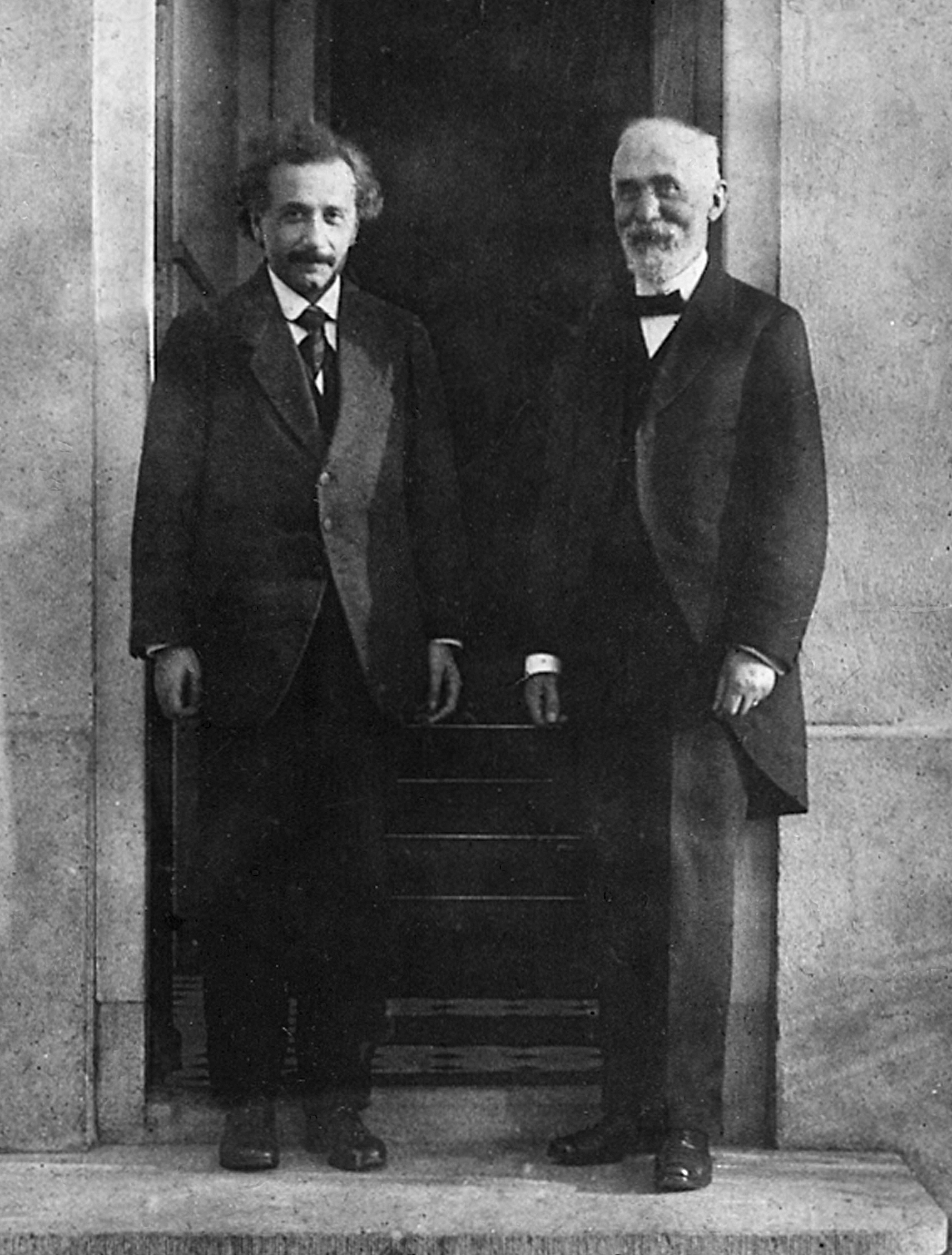 Albert Einstein and Hendrik Antoon Lorentz, photographed by Paul Ehrenfest (1880-1933) in front of his home in Leiden in 1921.